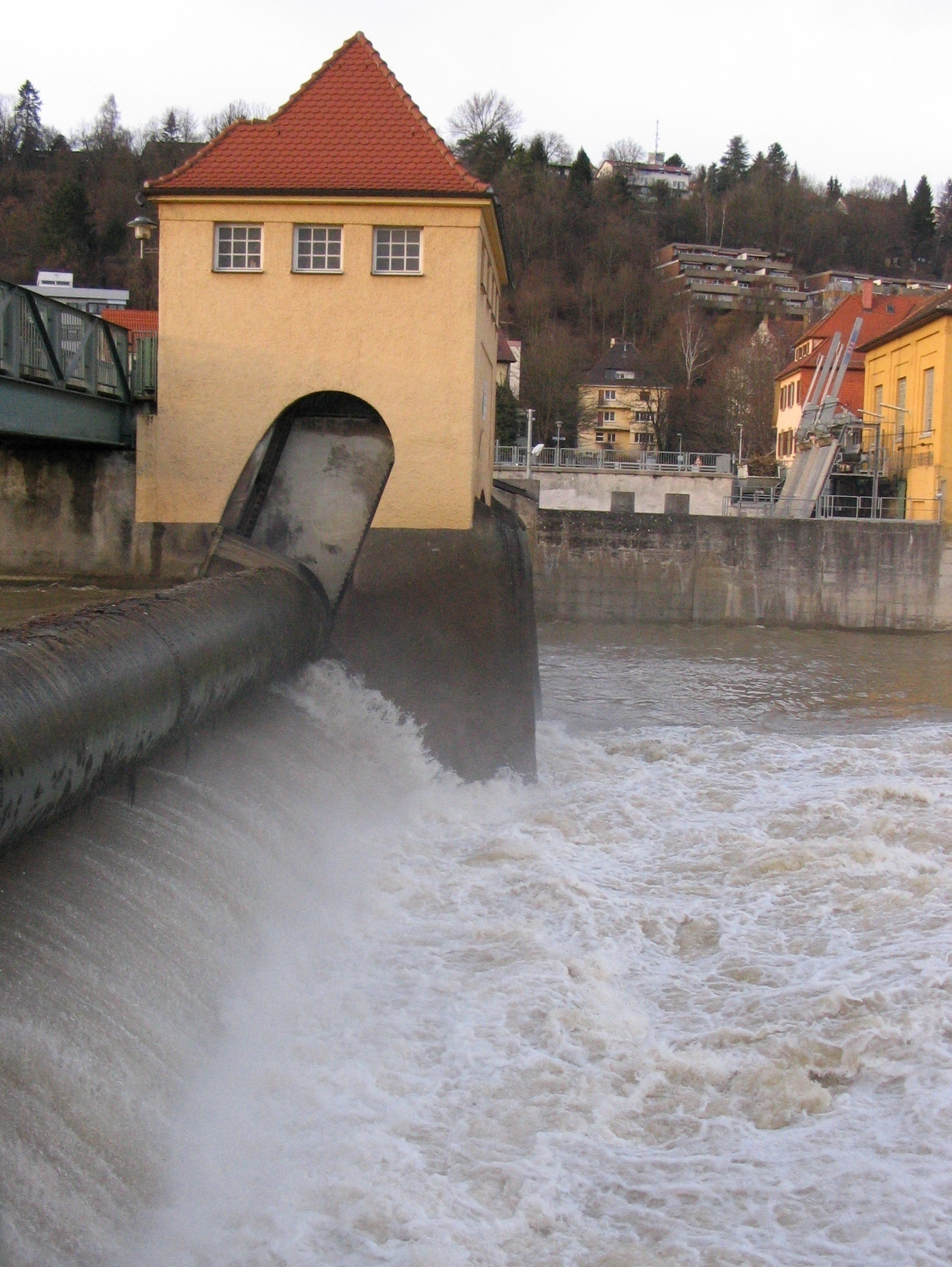 weir in the Neckar in Tübingen, Germany.